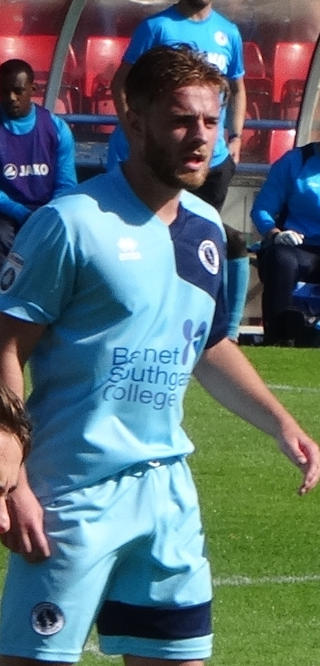 Conor Clifford playing for Boreham Wood against York City at Bootham Crescent, York on 13 August 2016